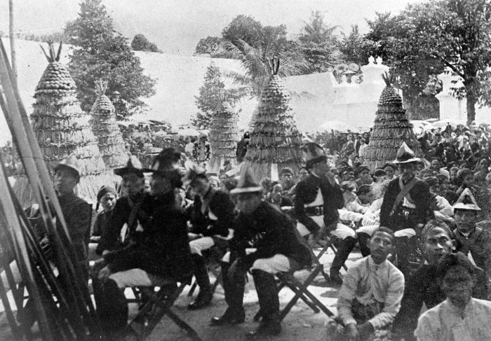 Members of Prawiratama brigade and Yogyakarta peoples gathered around gunungans at Keben yard in the Garebeg Mulud ceremony, a Islamic festive to commemorate the Prophet Muhammad's birthday